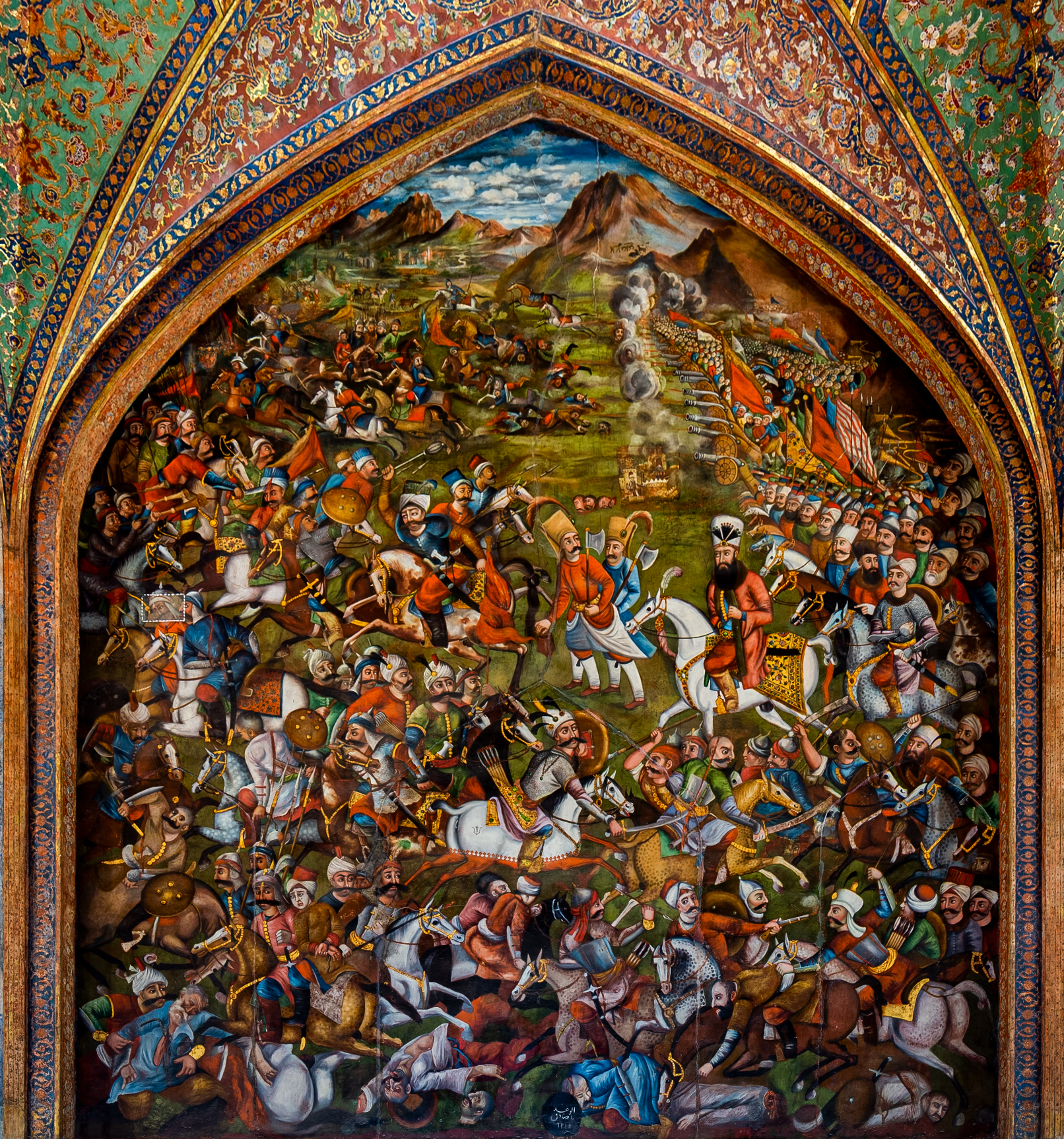 Painting of Battle of Chaldiran at the central audience hall of Chehel Sotoun palace